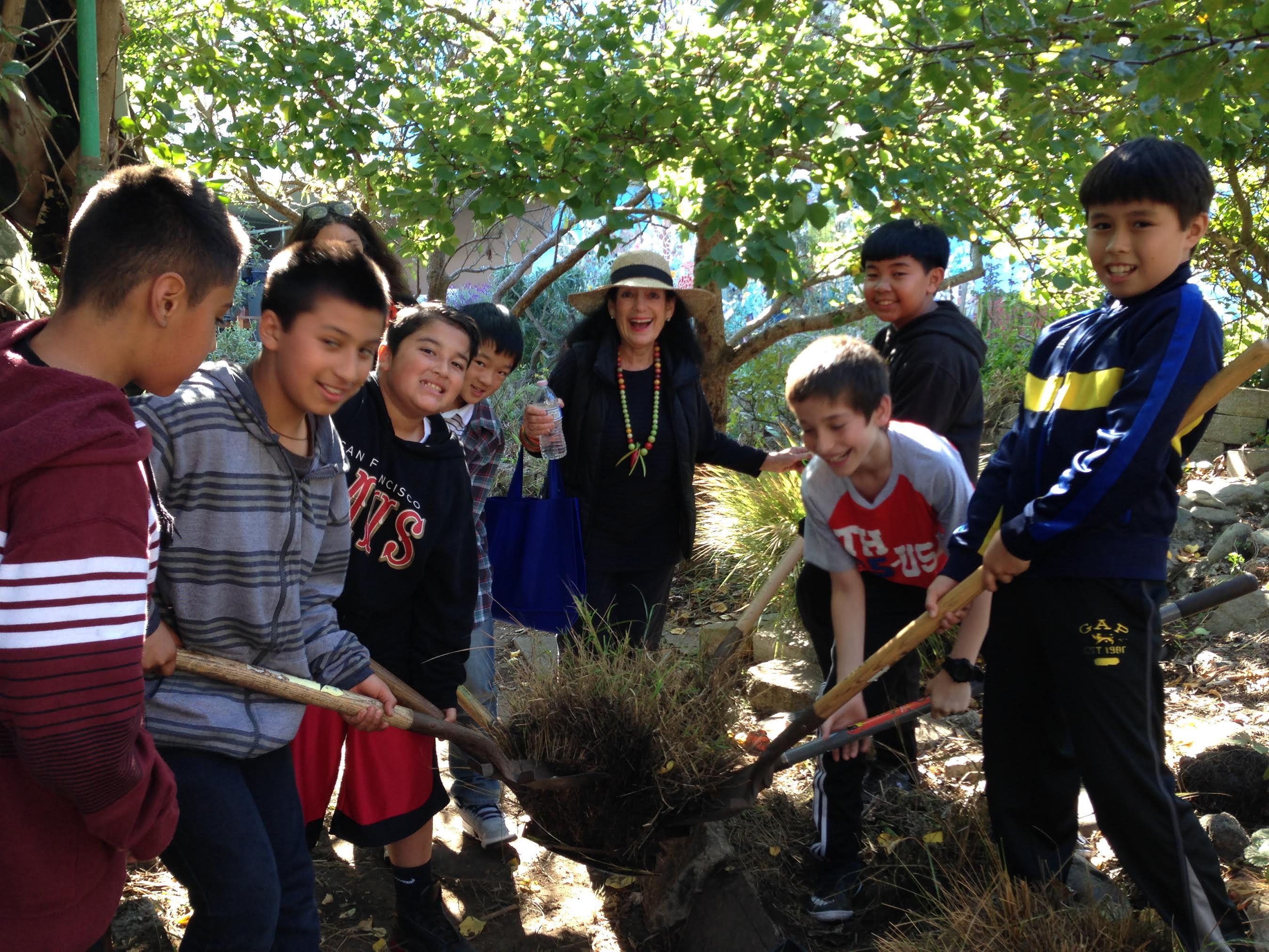 A Living Library integrates local resources — human, ecological, economic, historic, technological, and aesthetic — seen through the lens of time – past, present, future - to make relevant ecological transformations with systemically integrated hands-on learning opportunities and community programs.